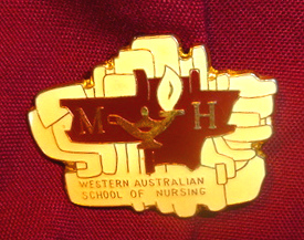 Western Australia School of Nursing closed in 1988. This is a mental health nurses badge